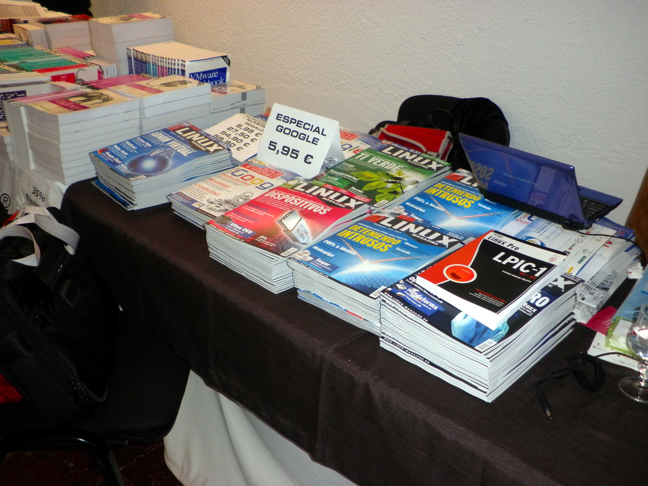 Linux Magazine stand